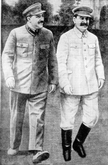 Iosif Dzhigashvili (better known as Josef Stalin) with Lazar Kaganovich.